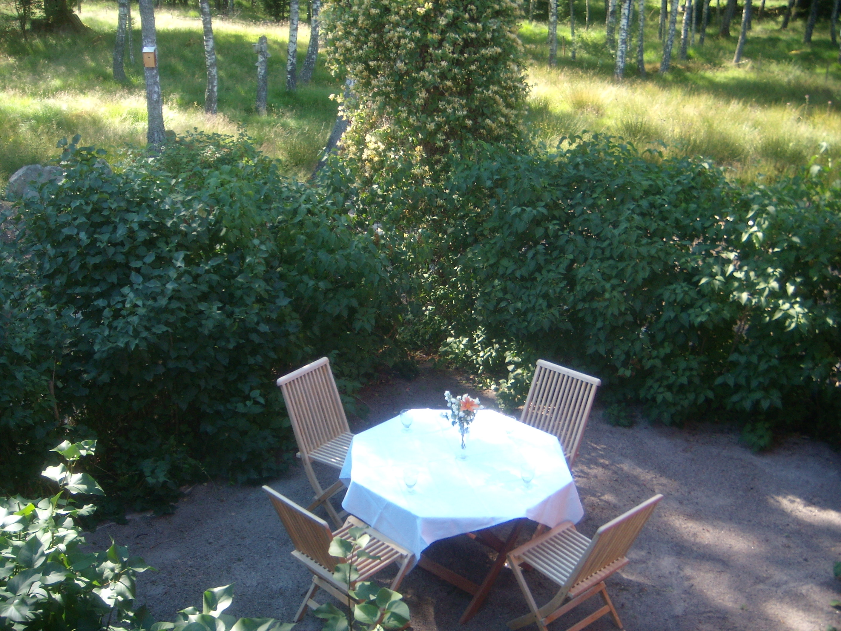 Arbour in Sweden by summer.